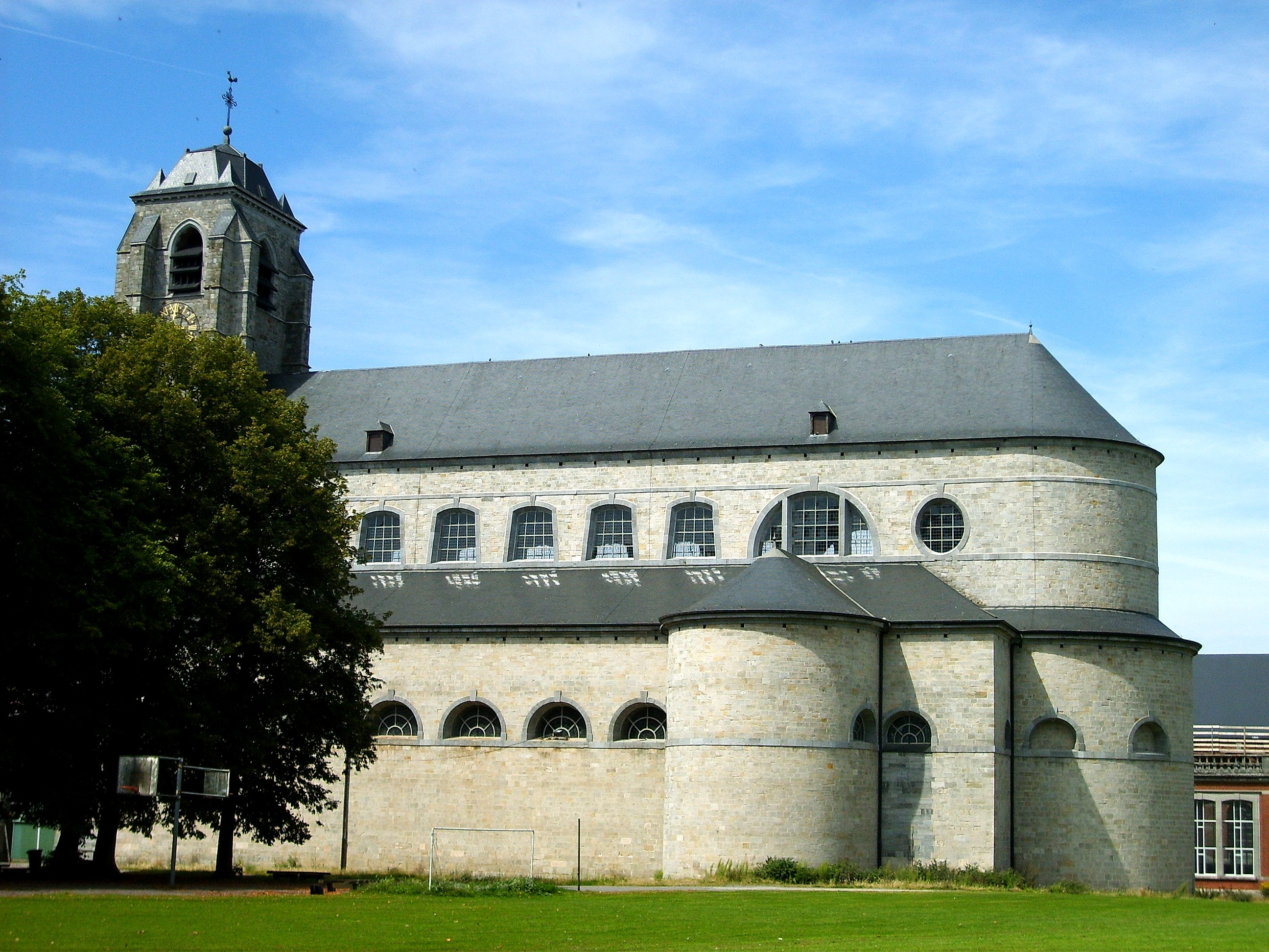 Bonne-Espérance Abbey, Vellereille-les-Brayeux (Belgium), Notre-Dame de Bonne-Espérance basilica (literally Our Lady of Good Hope), neoclassic abbey church (1776) designed by Laurent-Benoît Dewez, with its gothic bell tower (15th century).